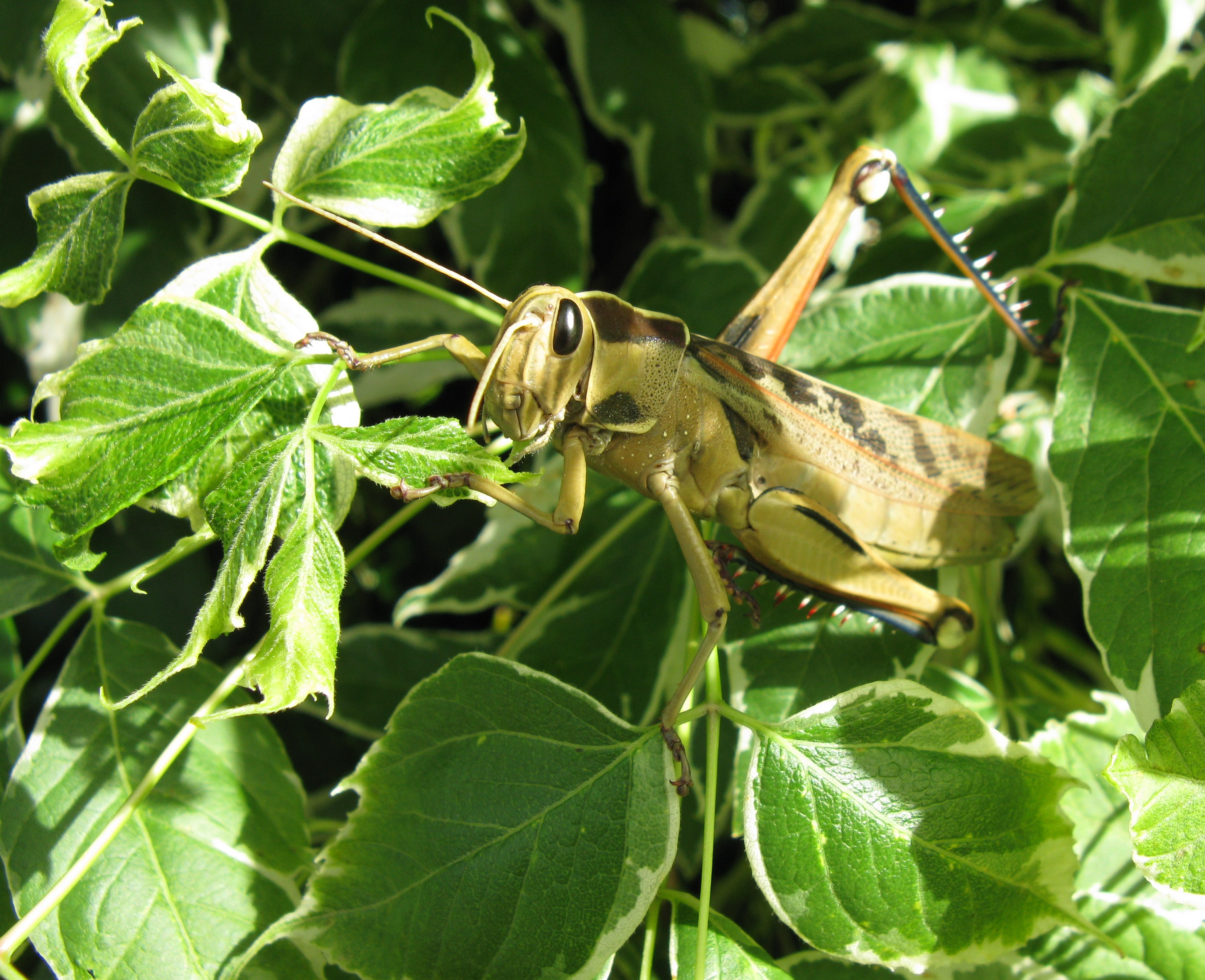 Acanthacris ruficornis, mature female eating a leaf. One ocellus is visible next to the left eye.